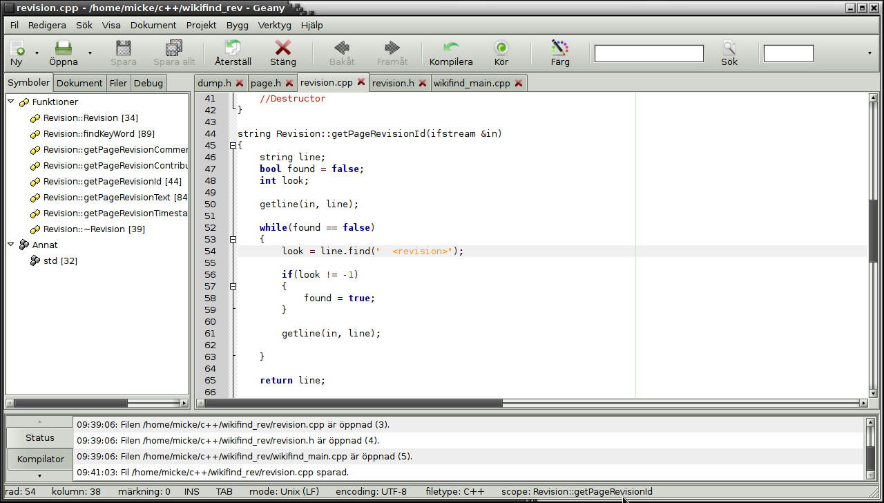 C++ source code for an (unfinished) program, shown in the geany editor, screen shot